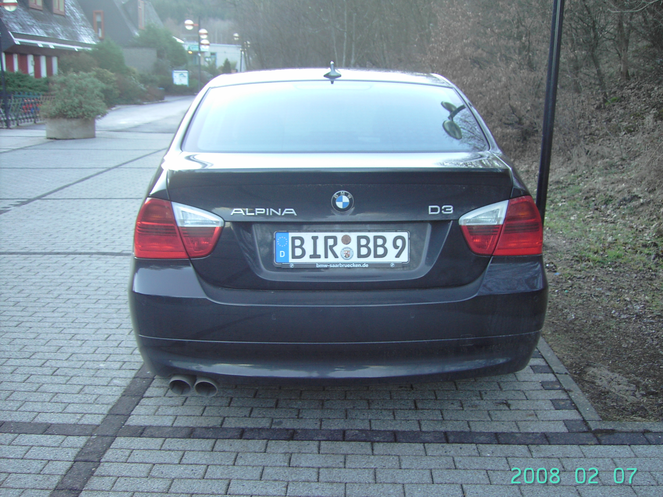 Picture taken in Germany.